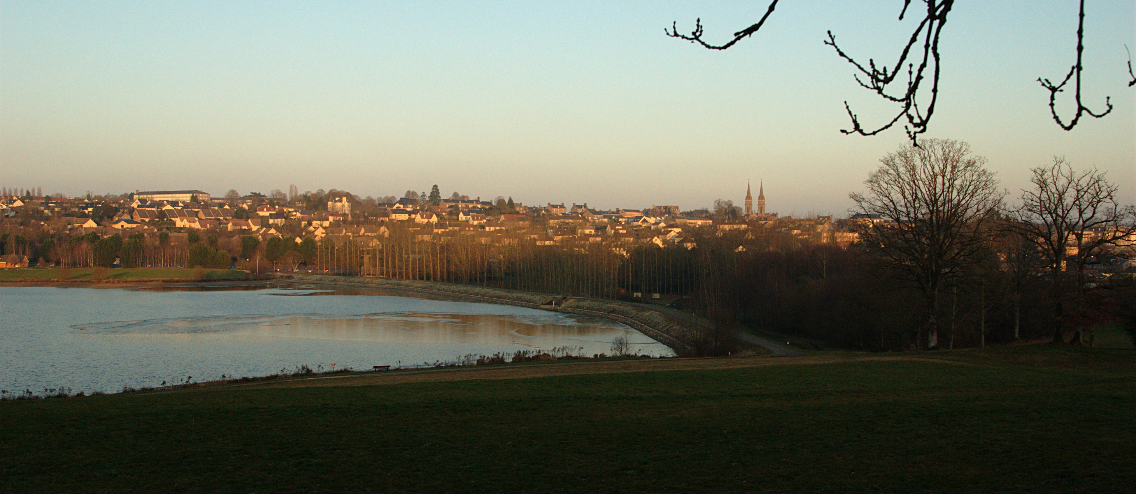 La Ferté-Macé village,a view of the reservoir for spare time activities.